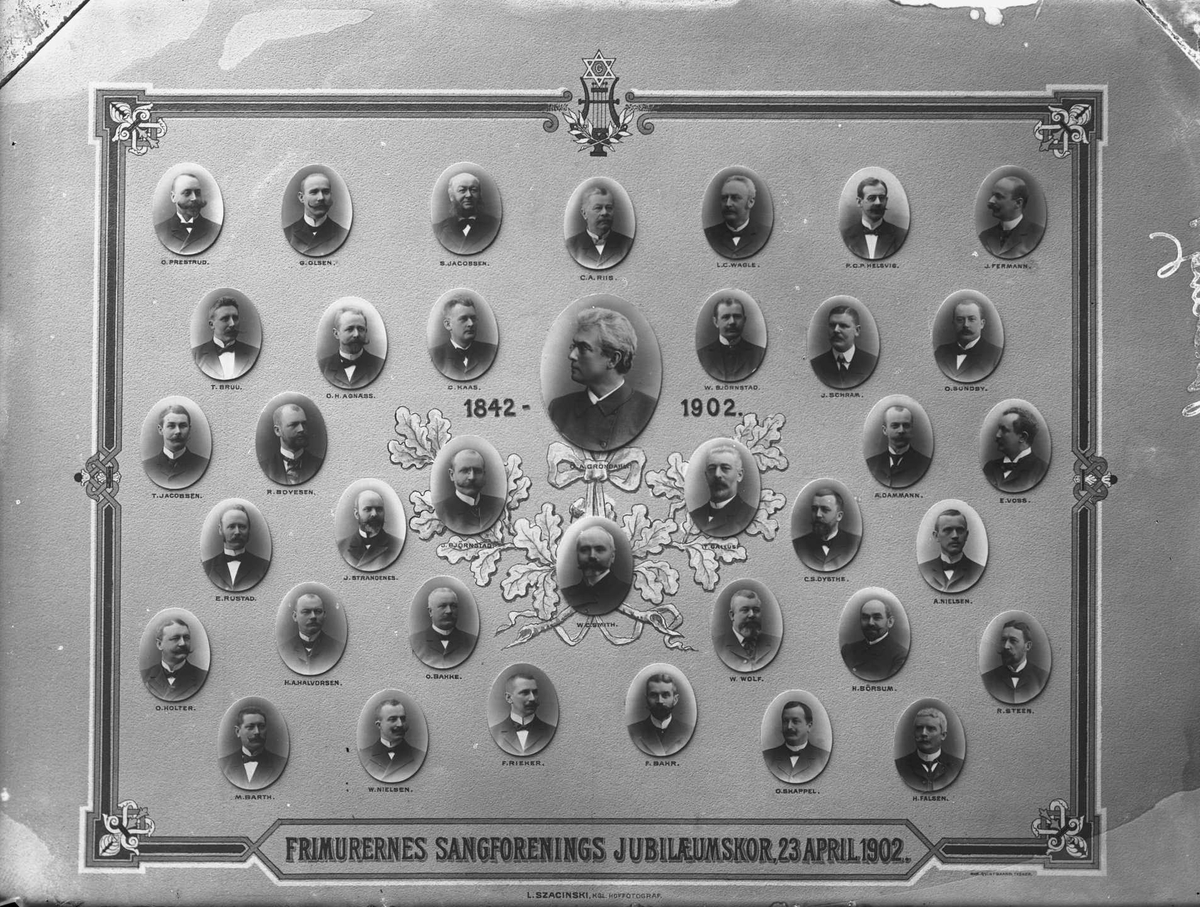 Oslo free masons choir 1902